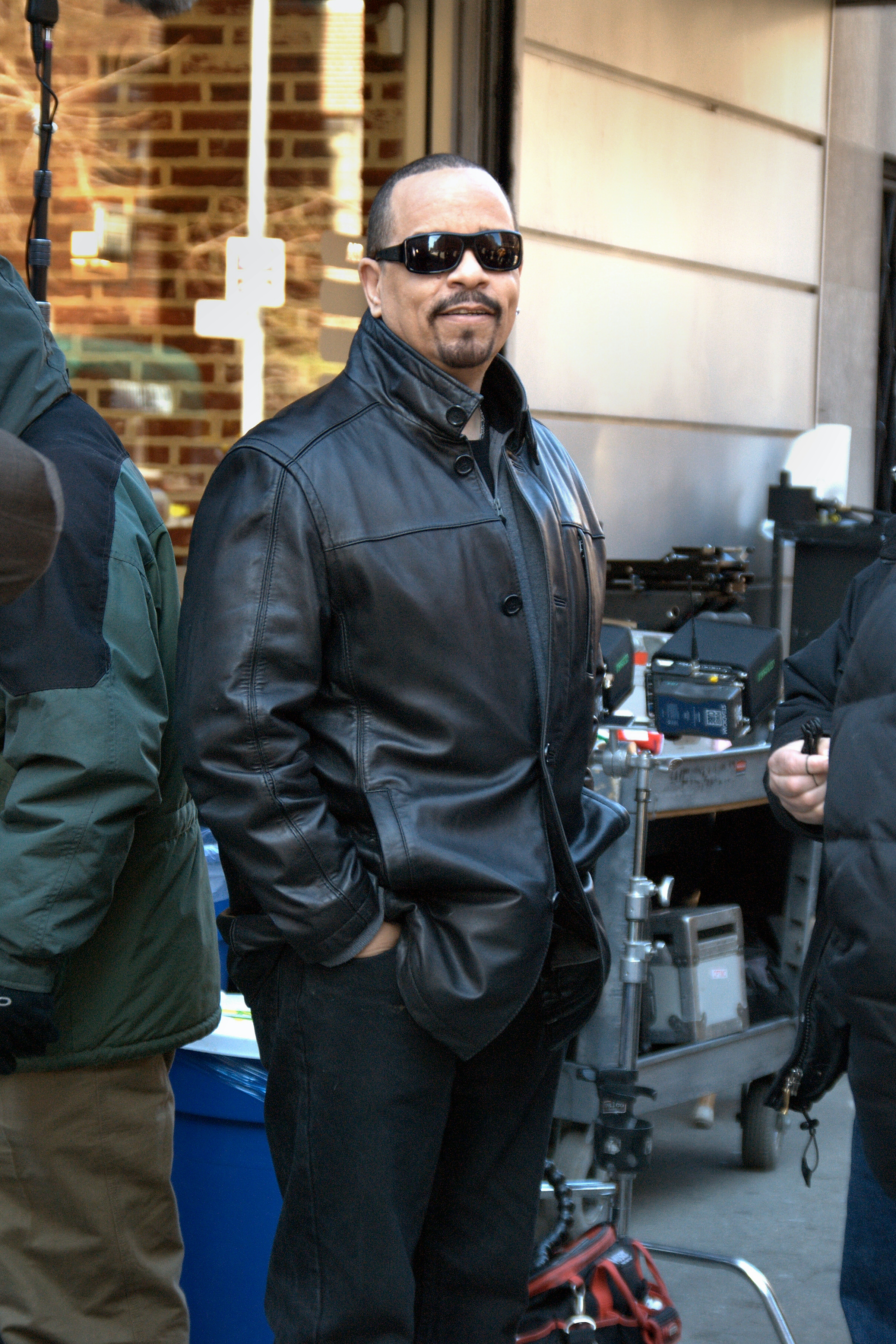 Ice-T near the Meat Packing District in Manhattan on set of Law & Order: Special Victims Unit.